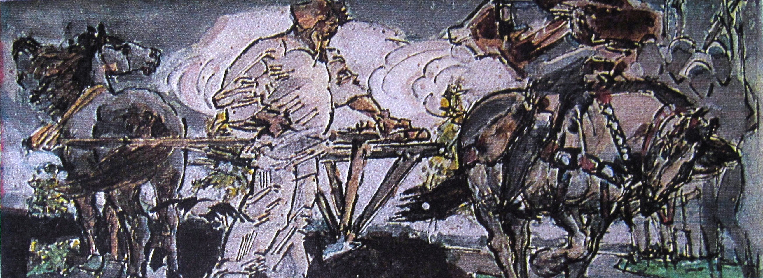 Sketch for a large panel